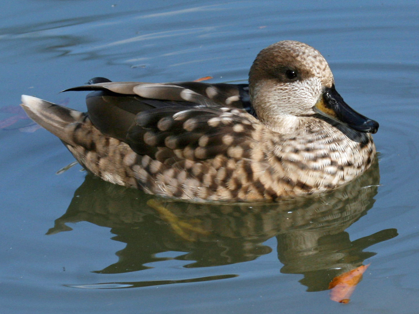 Marbled Teal (Marmaronetta angustirostris) at Sylvan Heights Waterfowl Park in Scotland Neck, North Carolina.